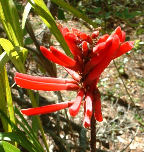 Coral bean flower, photographed 27th March 2004 in Turkey Creek Sanctuary, Palm Bay, by Stephen Lea. This reduced image placed in the public domain 11th April 2004.